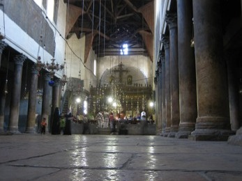 The Church of the Nativity in Bethlehem. Interior. / Crkva Rođenja Isusova u Betlehemu. Unturašnjost crkve. Glavna lađa.